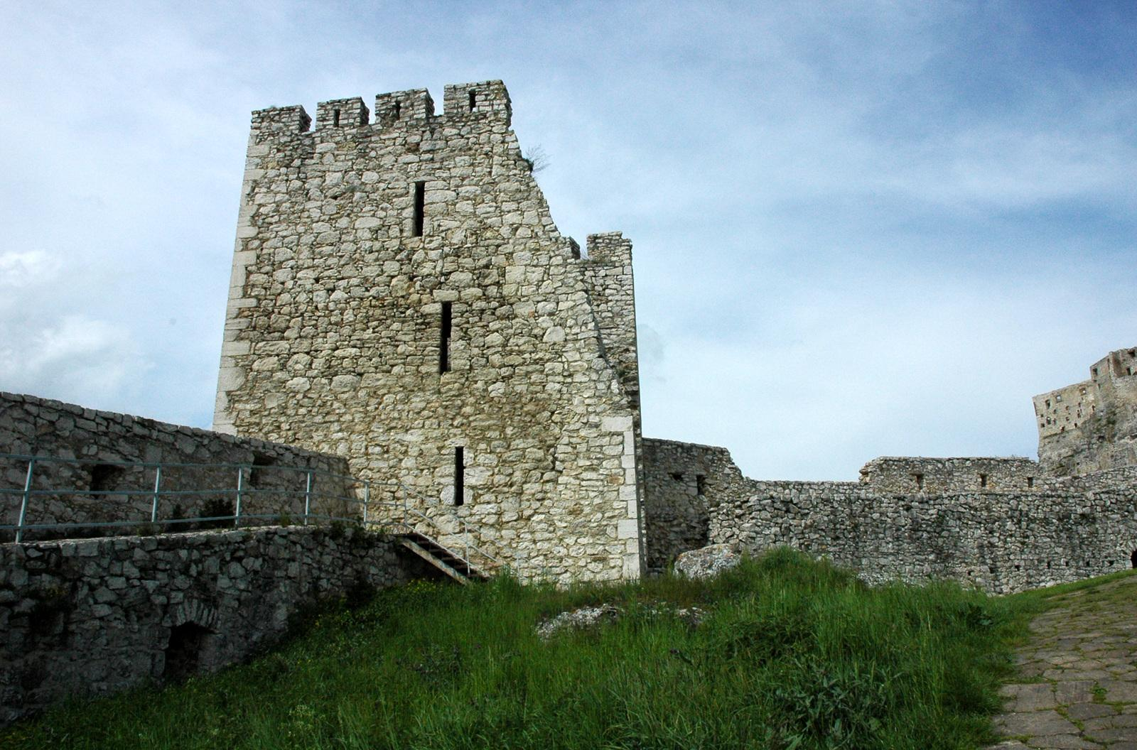 Spiš Castle